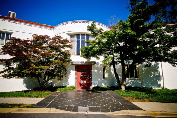 Entrance of the original Cafritz house at The Field School